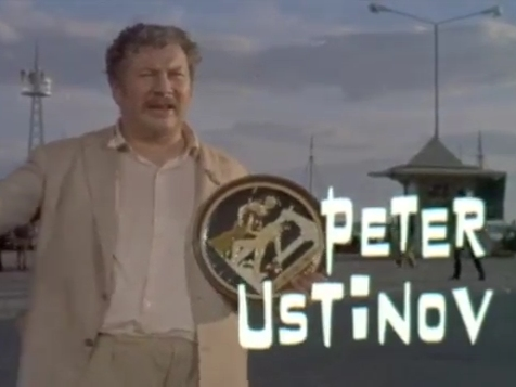 Trailer screenshot of Topkapi.